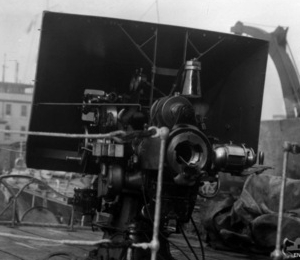 Breech mechanism of the bow BL 4-inch Mk VIII gun mounted on the destroyer HMAS Huon, photographed at the dockyard in Devonport, England. This is a clip from full image : File:BL 4 inch Mk VIII gun breech HMAS Huon 1919 AWM EN0319.jpg